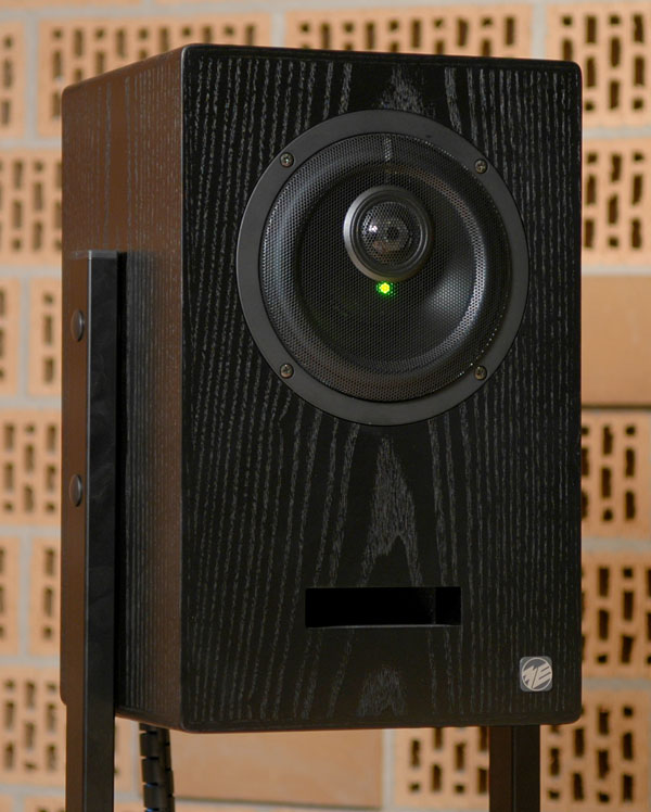 Professional Loudspeaker ME Geithain MO-2